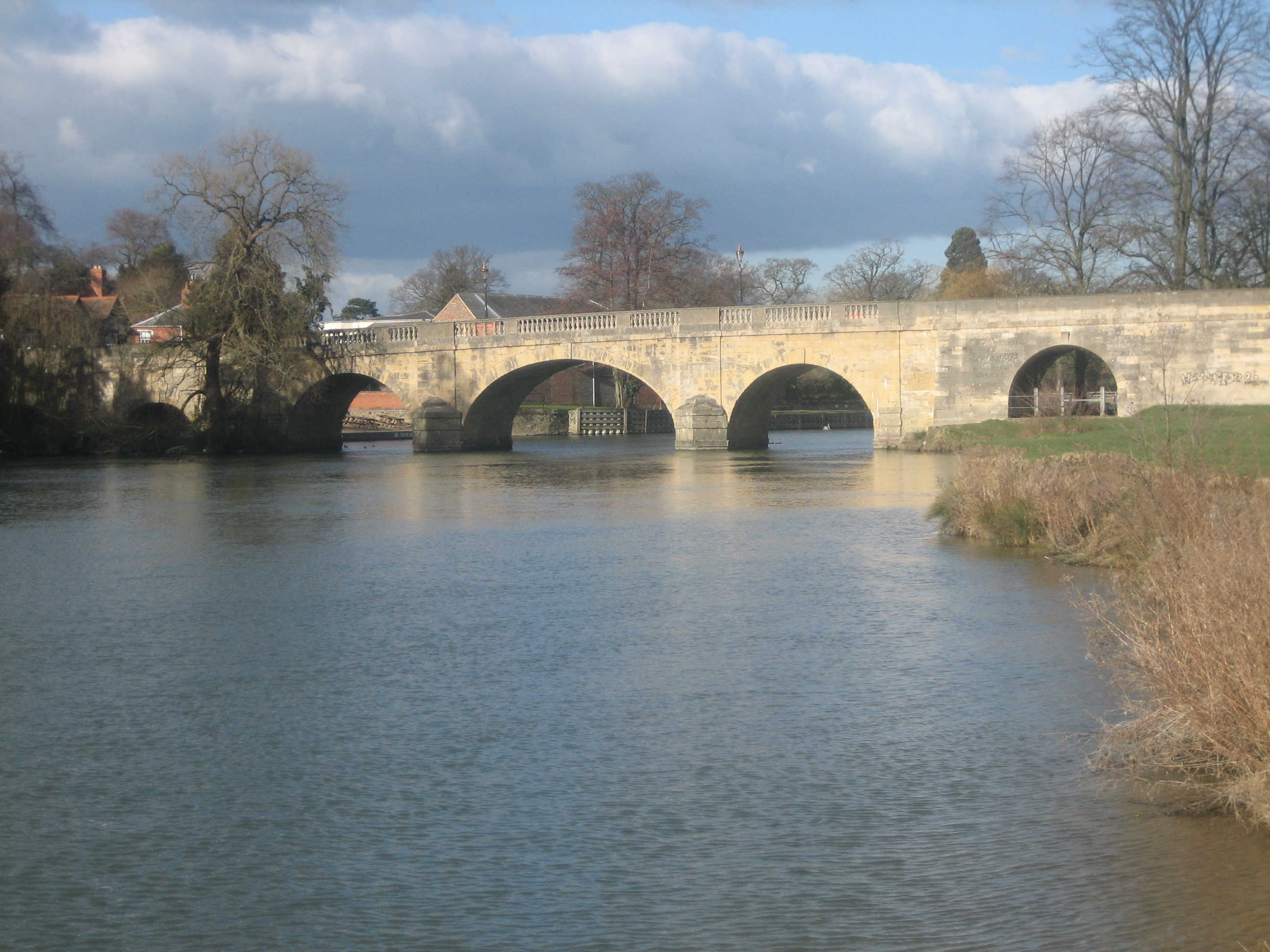 David Hemming